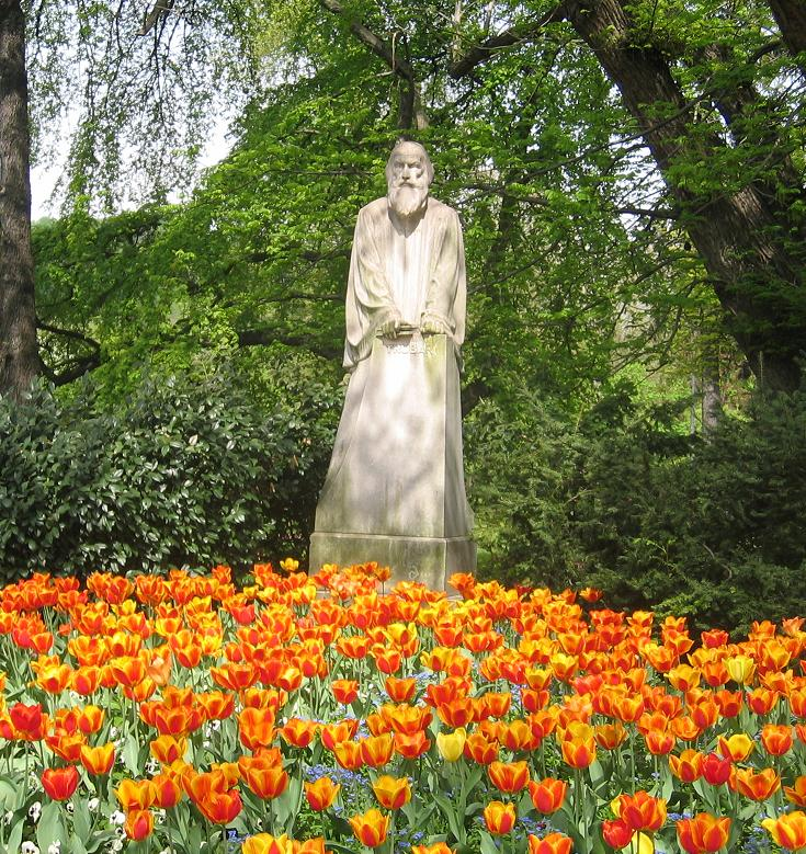 Primož Trubar, writer, protestant priest - statue in Ljubljana. White Tyrolean marble, 1910. Sculptor: Fran Berneker (1874-1932) Photo: Ziga 12:56, 26 April 2006 (UTC)